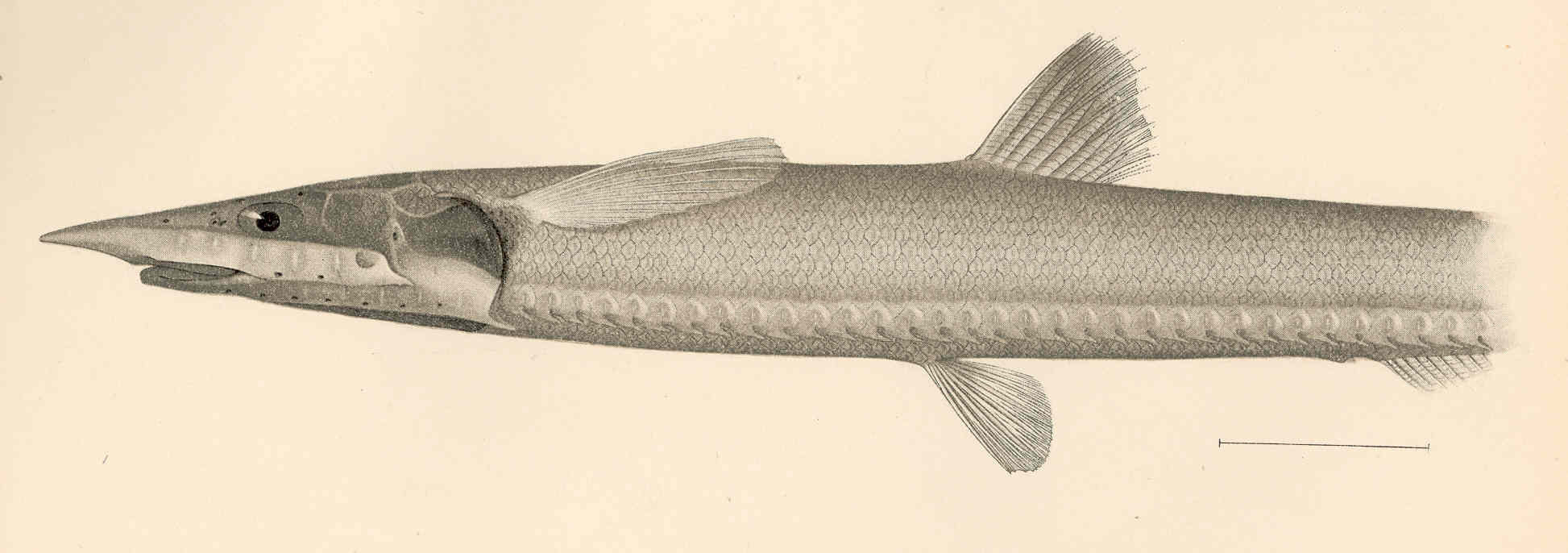 Aldovandia proboscidea Gilbert. Type Subject: Halosauridae, Halosauropsis, Aldrovandia Tag: Fish